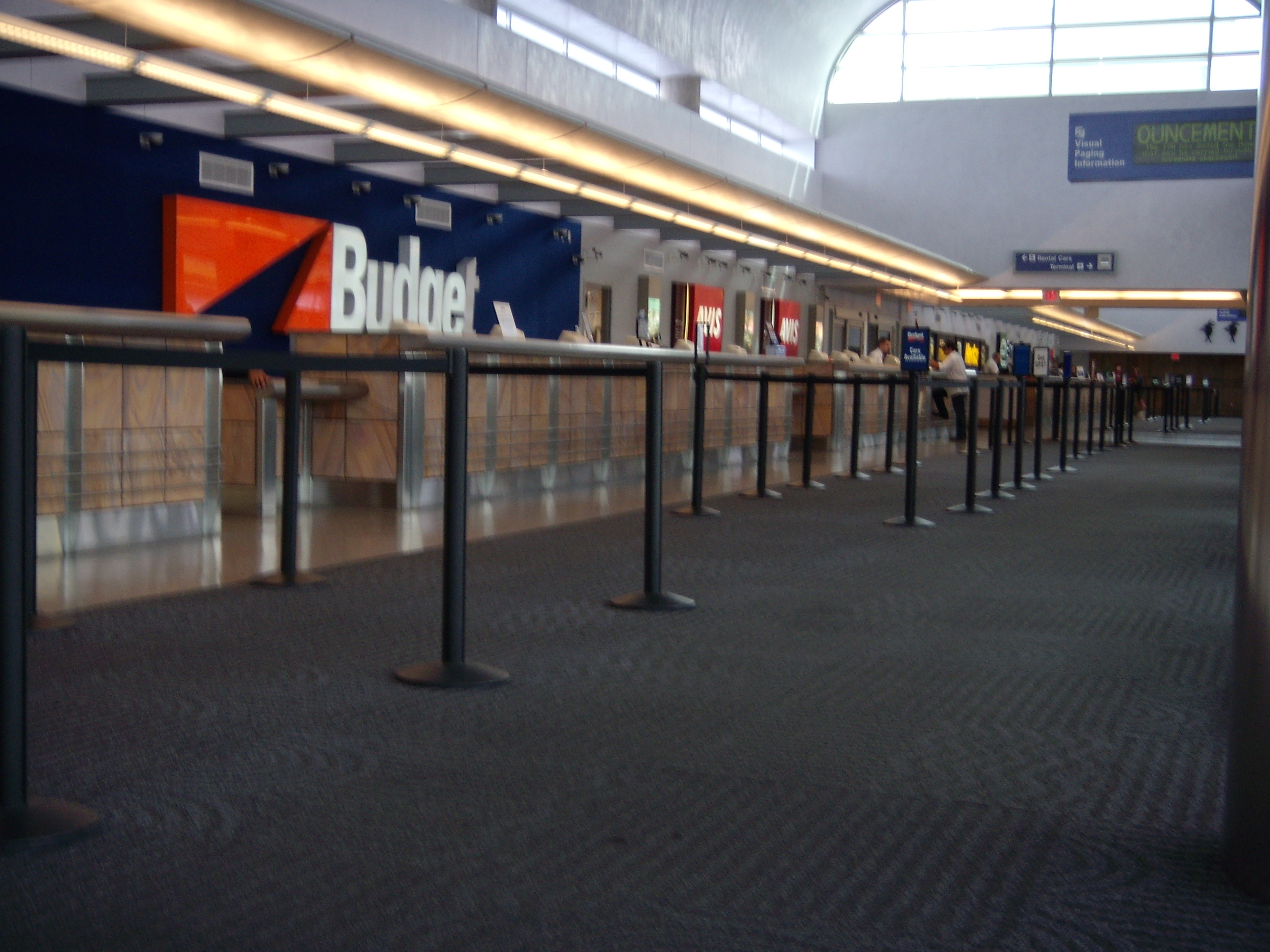 The Rental Car Center at Tucson International Airport. From the north end to the south end, the facility houses Alamo, National, Budget, Avis, Hertz, Enterprise, and Dollar.